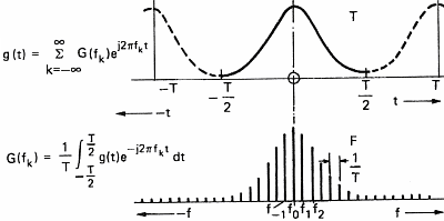 Fourier series